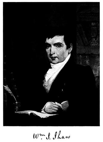 William Smith Shaw, founder